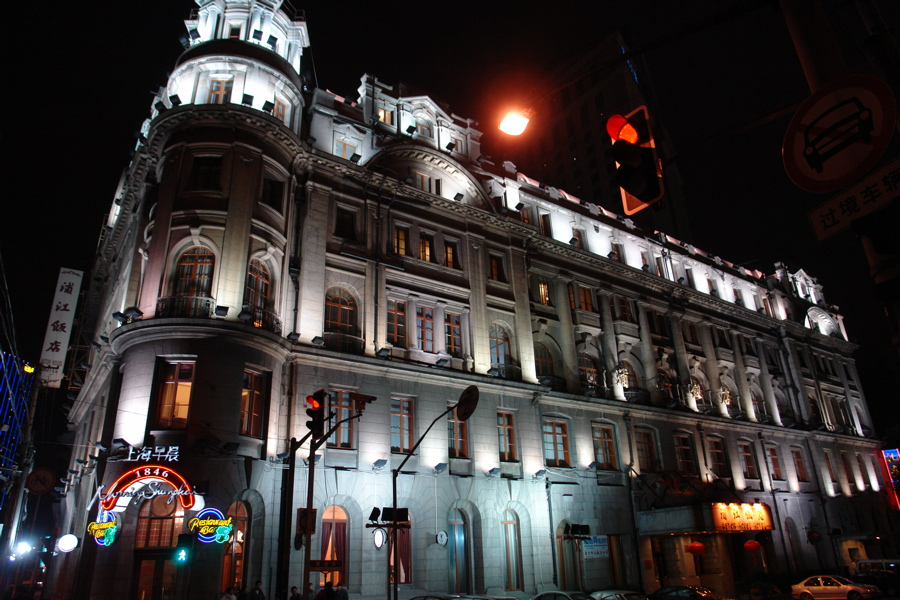 The Astor House in Shanghai